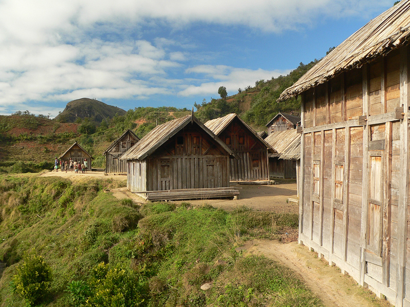 Wooden houses in a Zafimaniry village in central Madagascar.